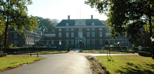 Slot Zeist in Zeist, the Netherlands. Author: Tom Schuring. Taken 18/10/2005 in the evening.